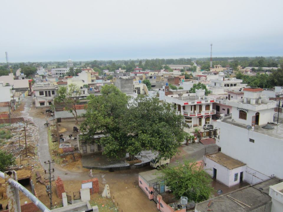 it is picture of my village